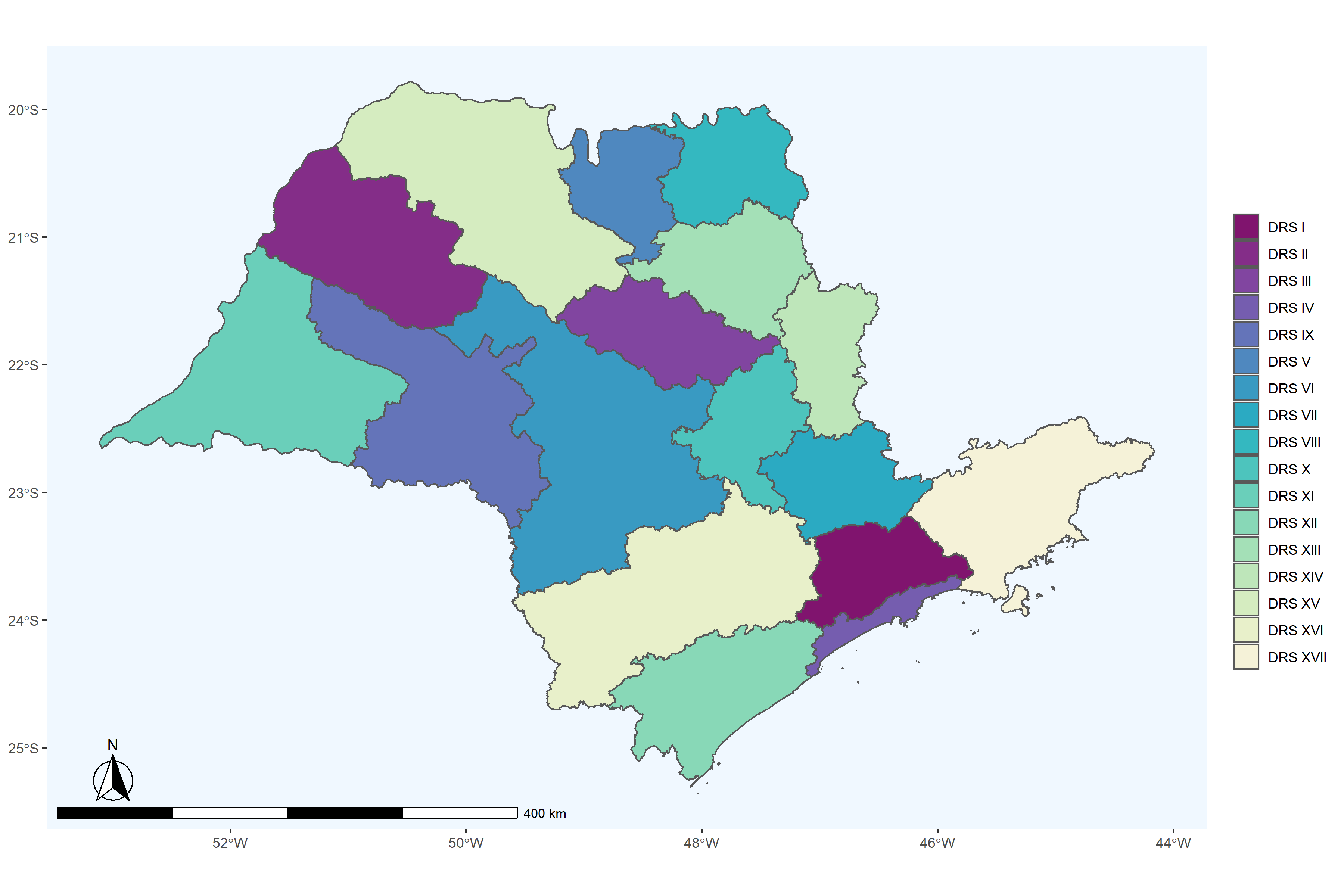 Este mapa, criado no R ( mostra a divisão dos municípios do Estado de São Paulo segundo o seu Departamento Regional de Saúde (DRS).